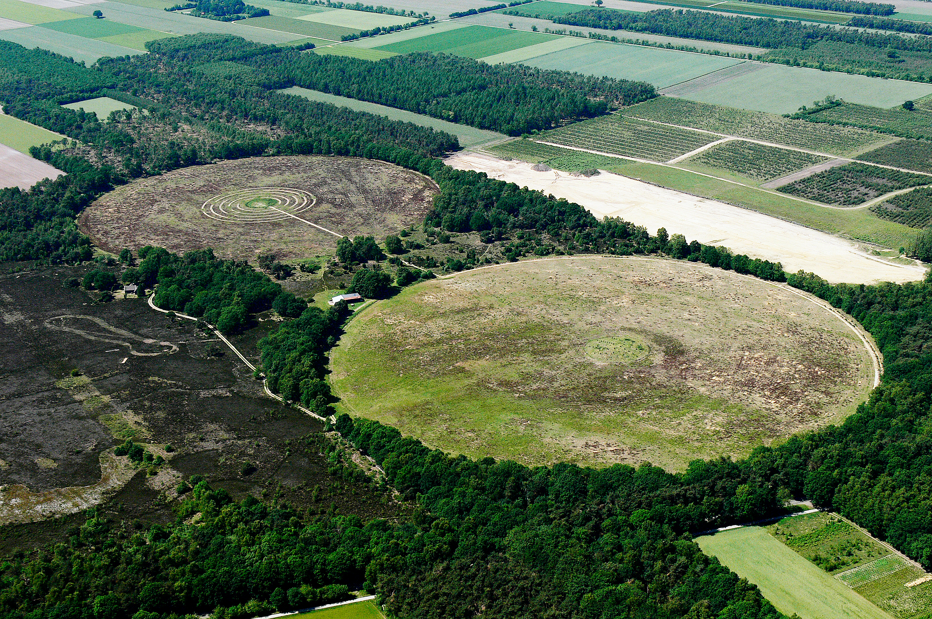 Luchtfoto Mander editie 20070523 Panasonic DMC-FZ30